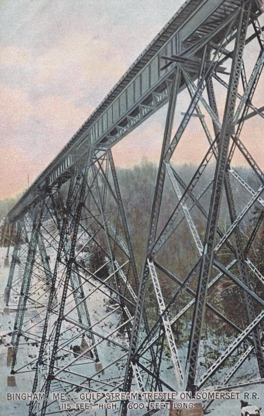 Gulf Stream Trestle (1904-1976) on the Somerset Railroad, Bingham, Maine. It carried tourists north to Moosehead Lake, and huge amounts of timber south to the mills.